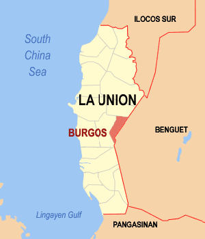 Map of La Union showing the location of Burgos